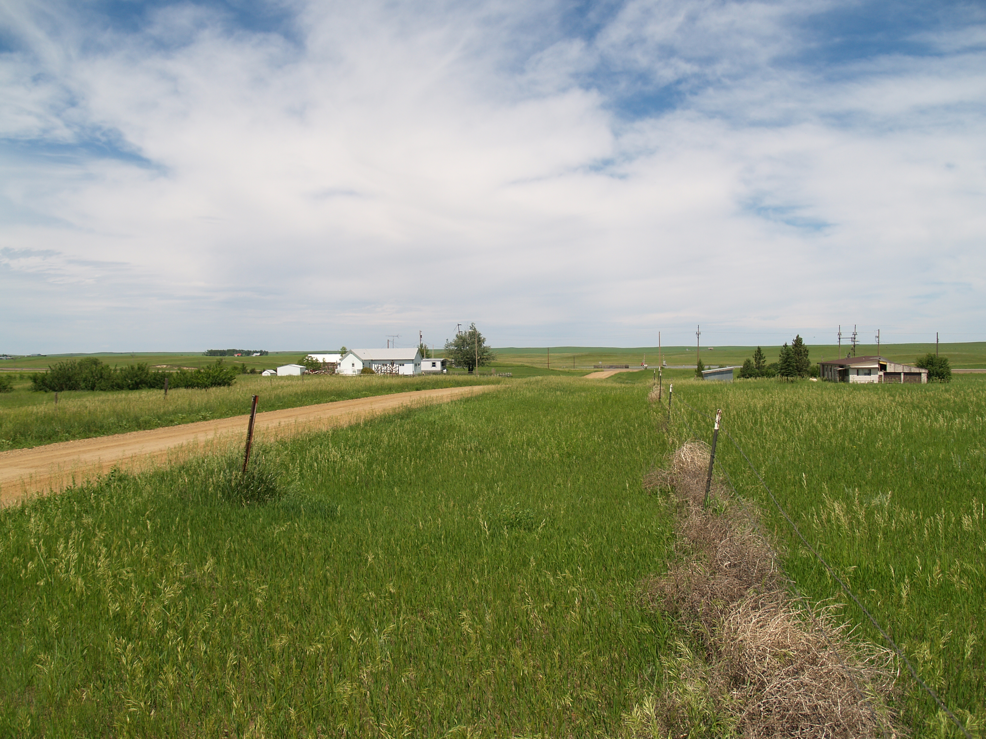 Buffalo Springs, North Dakota. From .